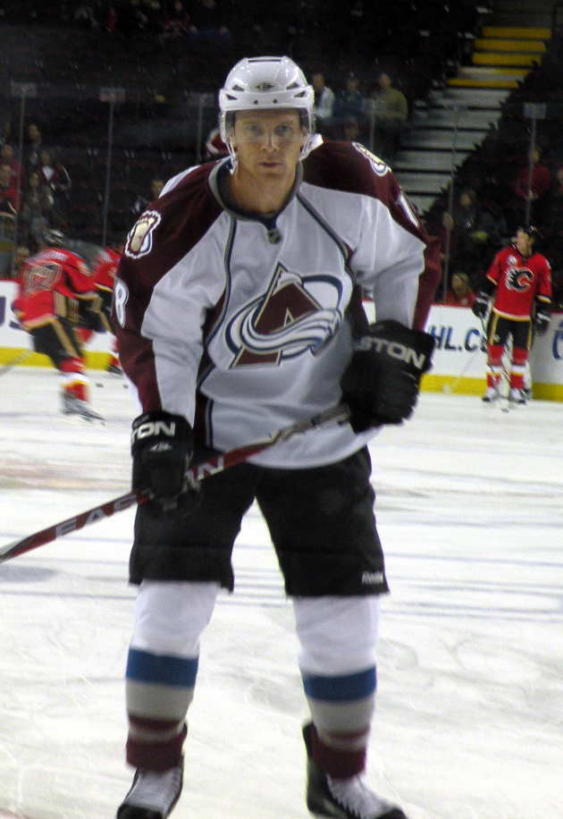 Colorado Avalanche forward Wojtek Wolski prior to a National Hockey League game against the Calgary Flames, in Calgary.